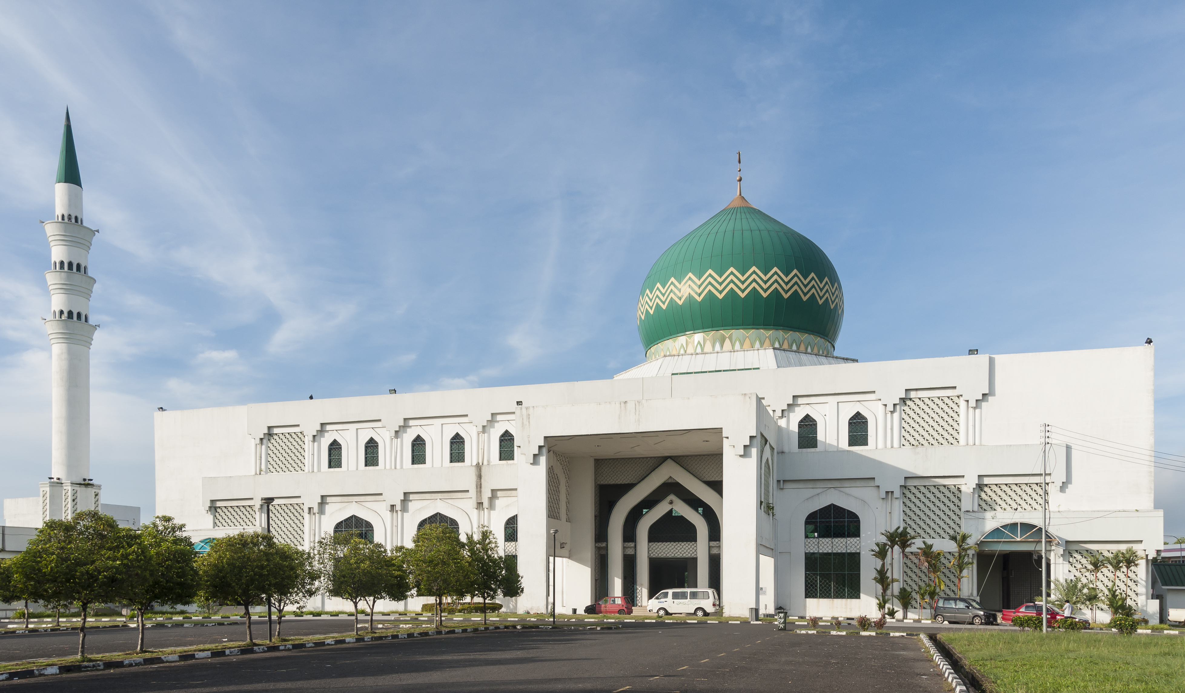 Tawau, Sabah: Al-Khauthar Mosque